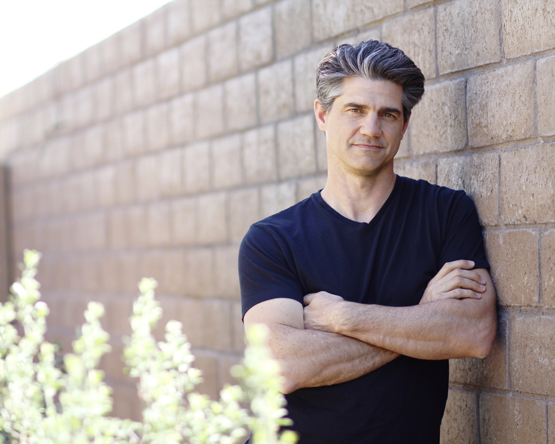 Joshua Becker in 2019, photographed by Gabriella Hileman